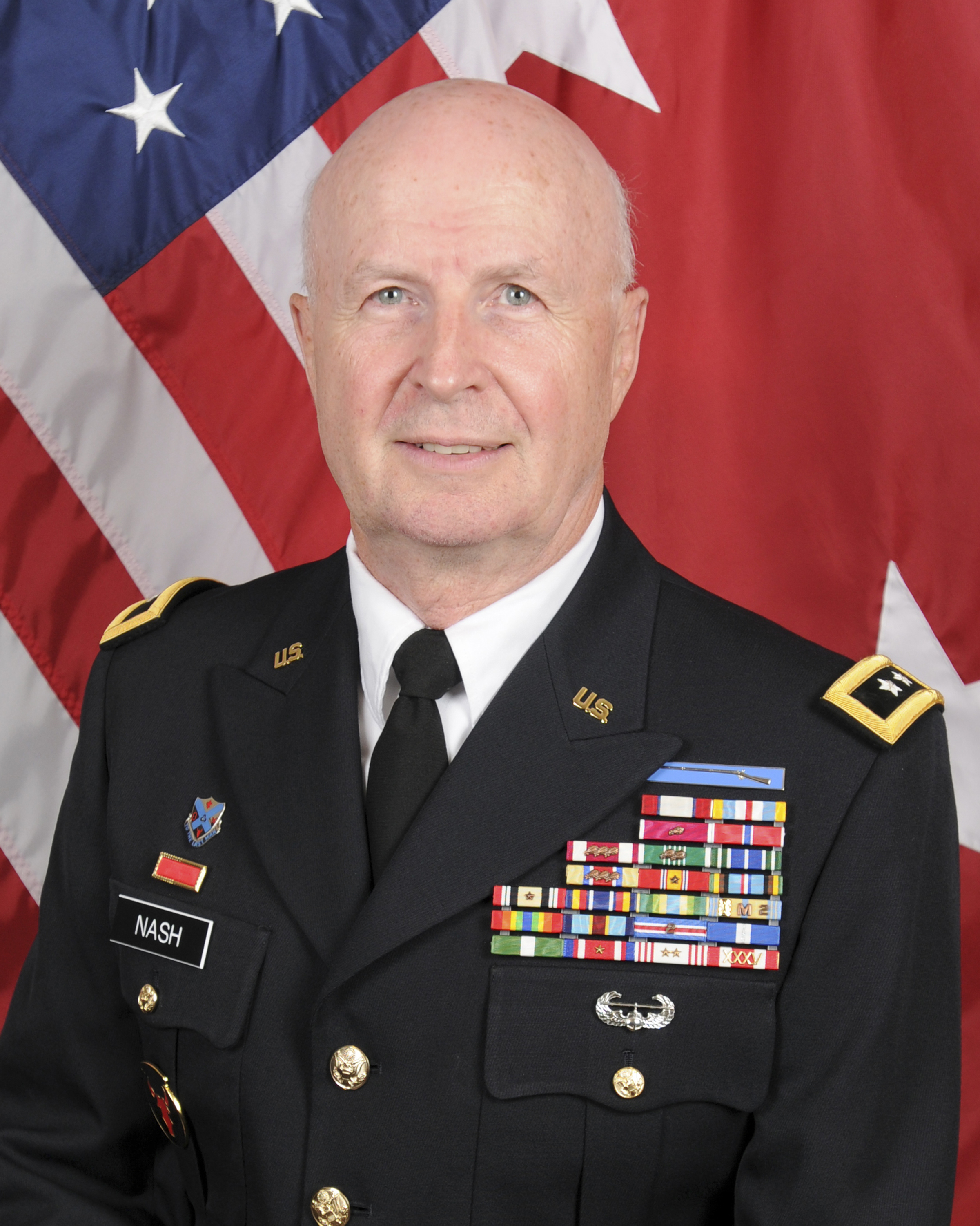 Official Photograph of Major General Richard C. Nash